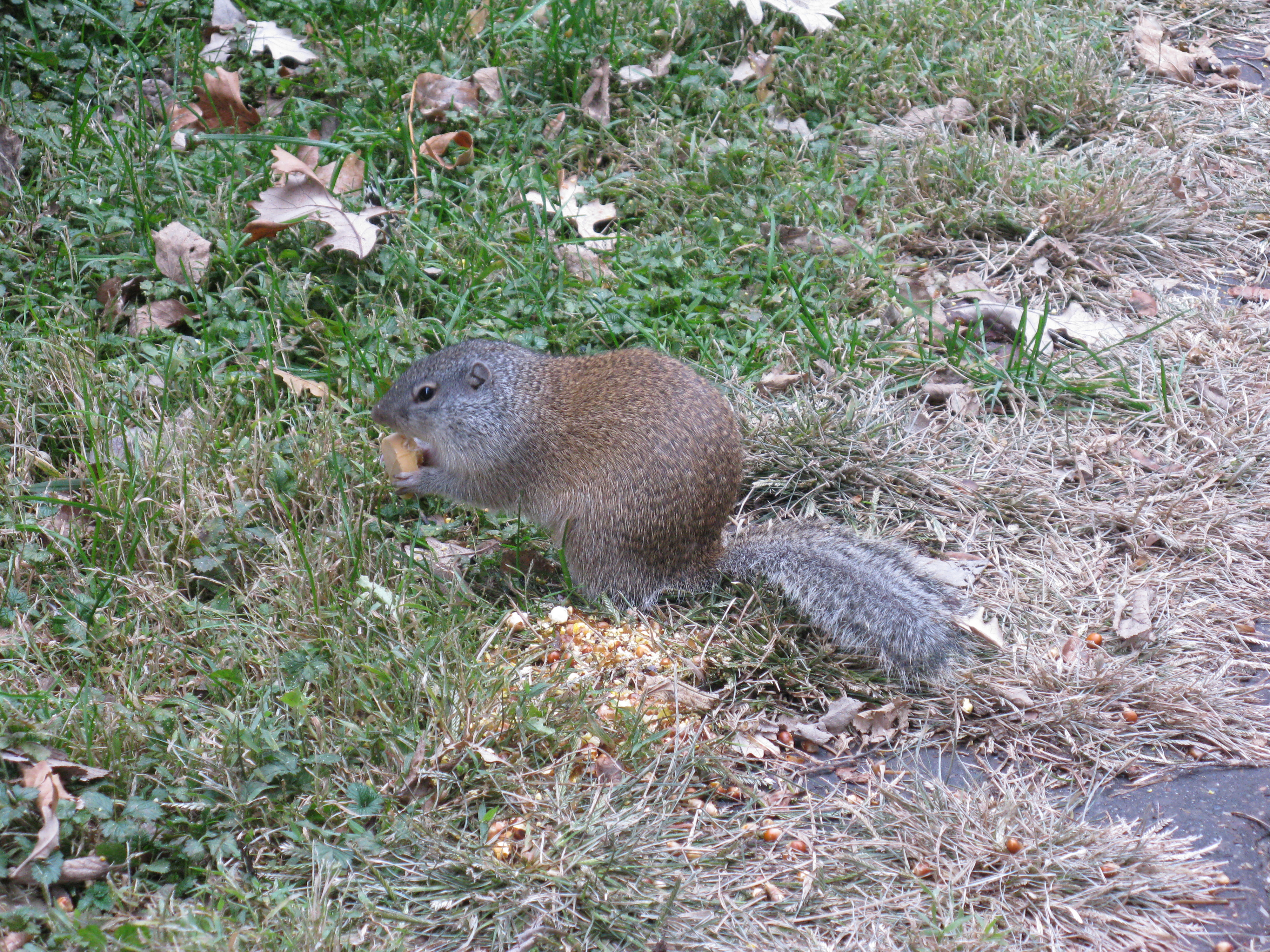 This was a human-habituated, though not hand-tame, specimen living in a park in Lincoln, Nebraska. The only ground squirrel in eastern Nebraska that matches this animal morphologically is Franklin's ground squirrel (franklinii).